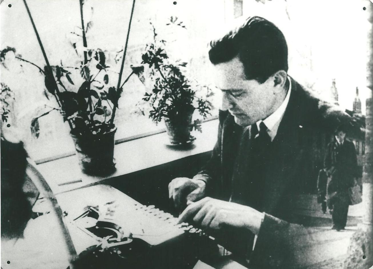 Elias Lunn Bredsdorff (1912-2002), Danish literary historian, educator, and resistance member